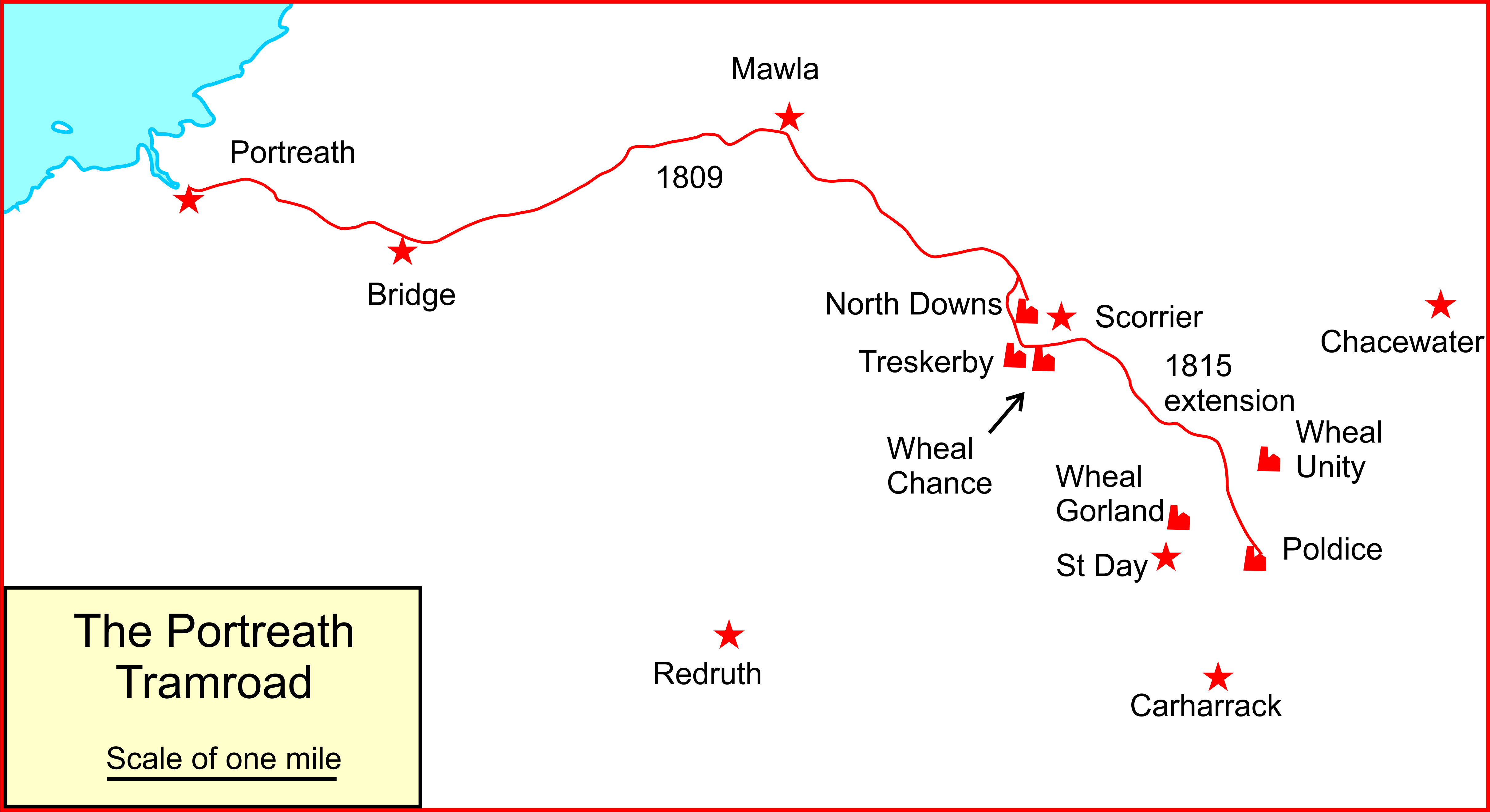 Map of the Portreath Tramroad or Portreath Tramway Cornwall England